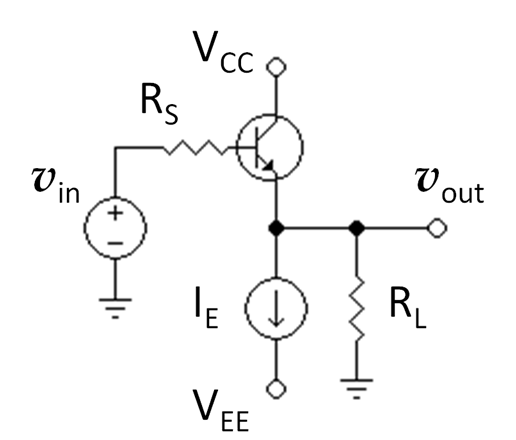 BJT voltage follower with current-source bias